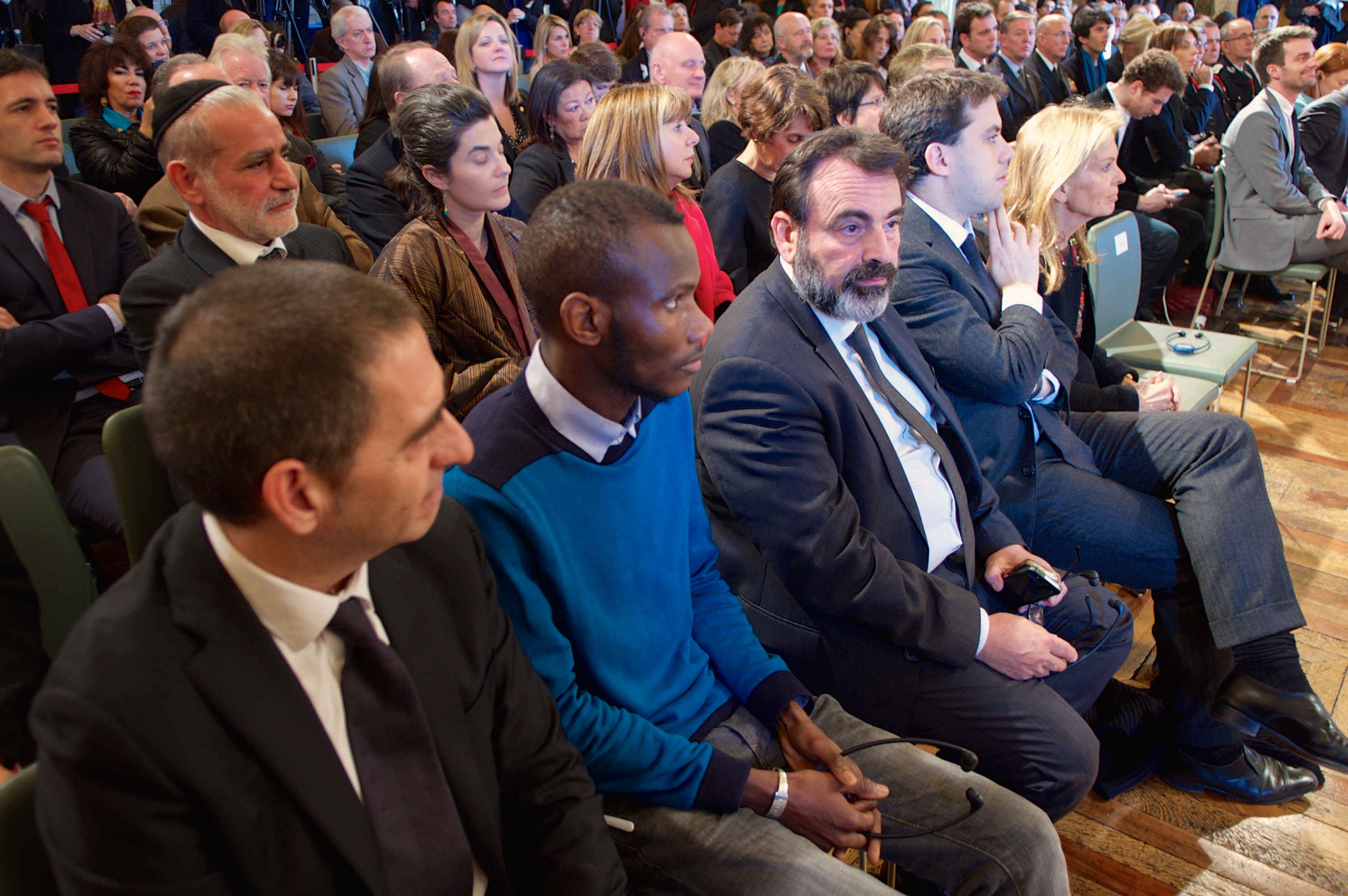 Lassana Bathily, seated in blue sweater, listens at City Hall in Paris, France, on January 16, 2015, as U.S. Secretary of State John Kerry delivers remarks hailing him for saving shoppers in the Hyper Cache kosher grocery in Paris, France, during last week's terrorist shooting spree. [State Department photo/ Public Domain]